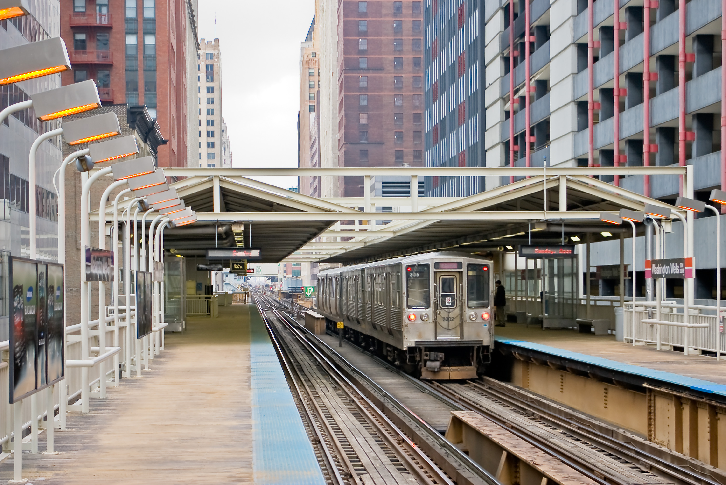 Washington/Wells 'L' station in the Chicago Loop